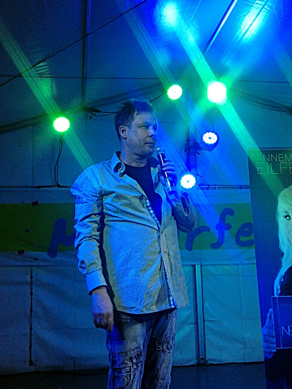 Michael Niekammer the tenants festival 2015 Berlin-Marzahn